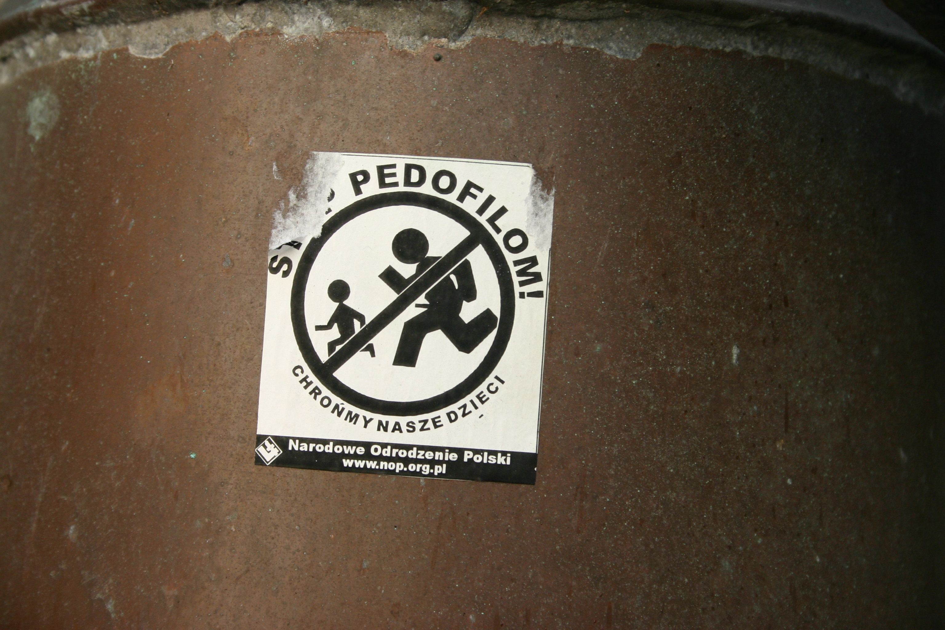 Kraków, Poland; Anti-paedophilia logo from the National Revival of Poland